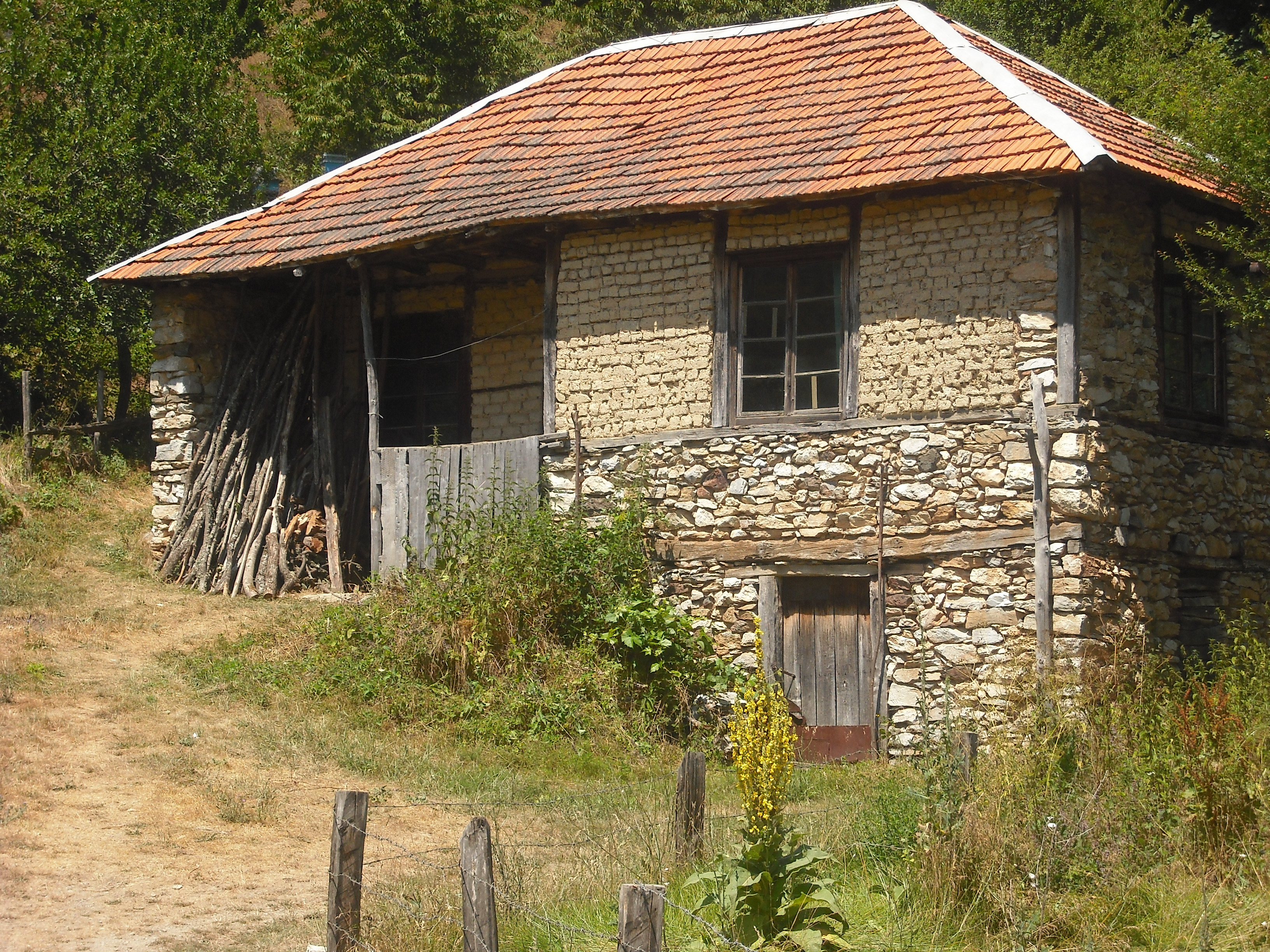 Traditional rural architecture in the village of Mramorec, Republic of Macedonia